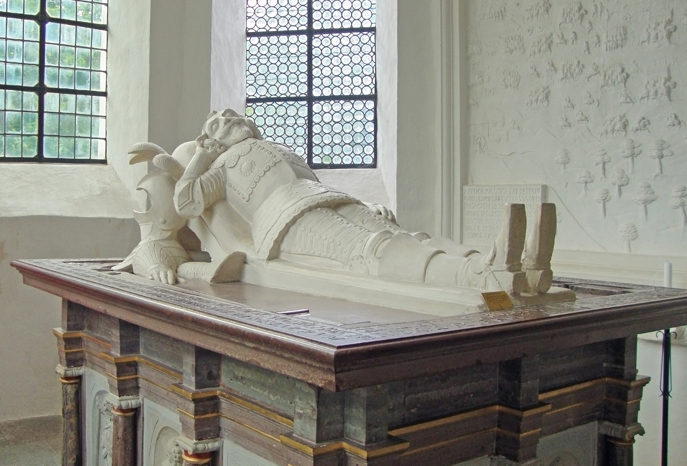 The tomb of Swedish military commander and count Herman Wrangel. At Skokloster church in Uppland, Sweden.